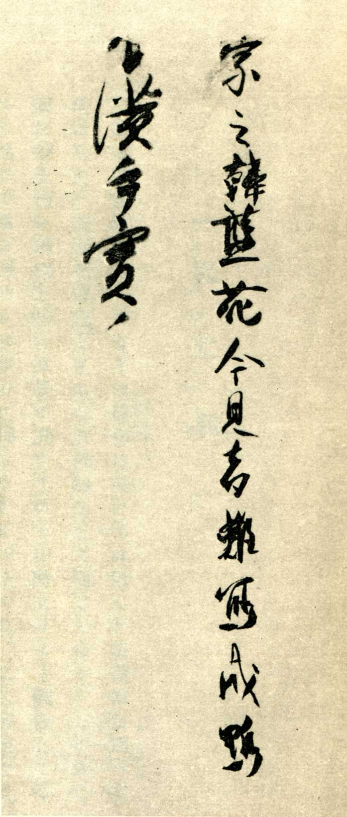 Soukou Shujitsu